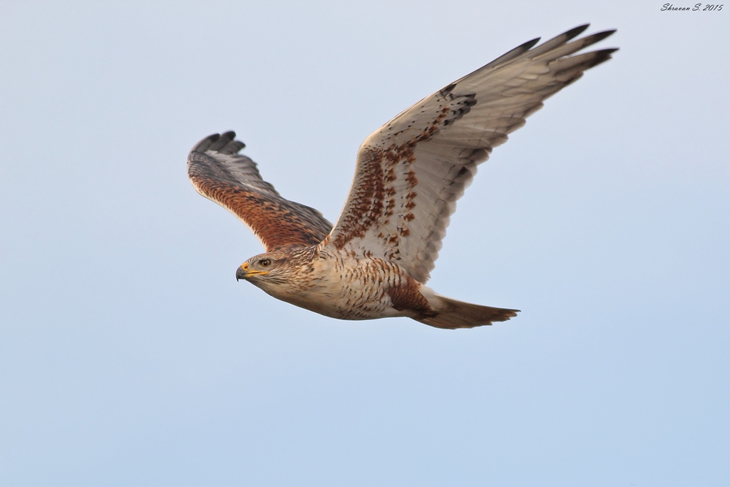 An adult Ferruginous Hawk flies over a field while hunting near San Jose, CA.